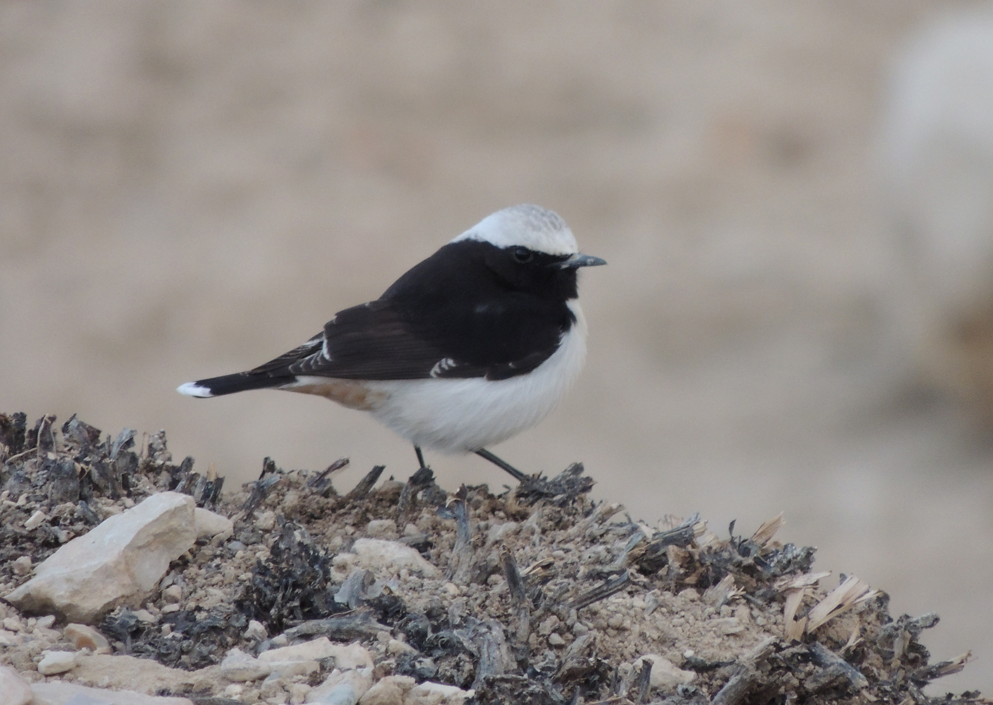 Mourning Wheatear Oenanthe lugens, Petra, Jordan